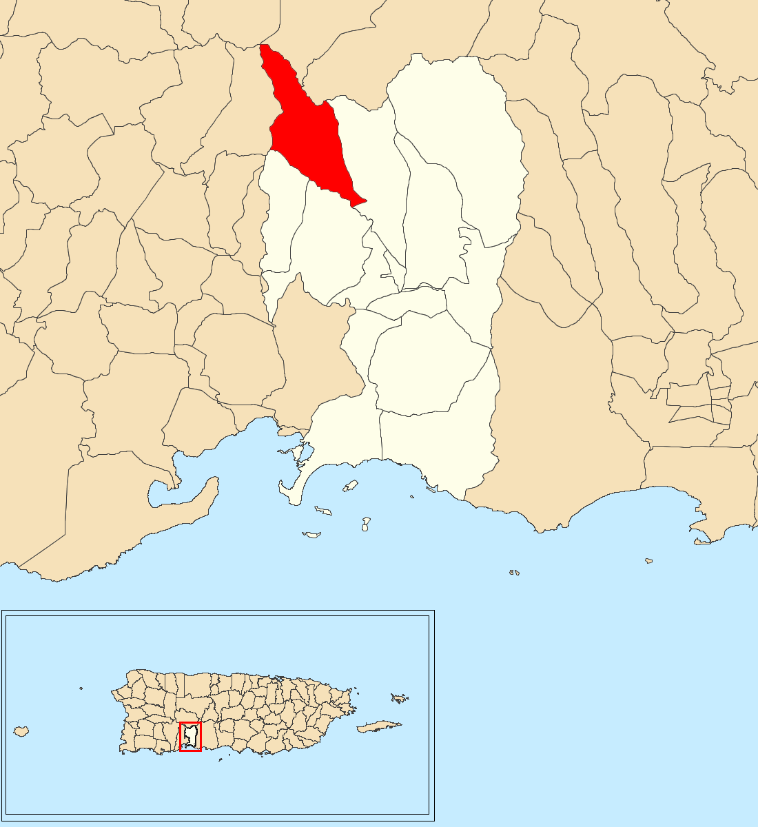 Barreal, Peñuelas, Puerto Rico locator map